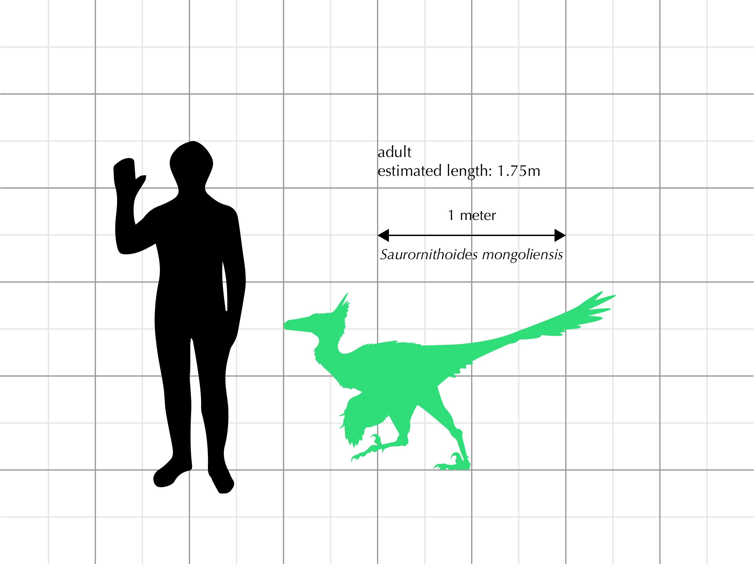 A size comparison between a human male and a Saurornithoides mongoliensis specimen.